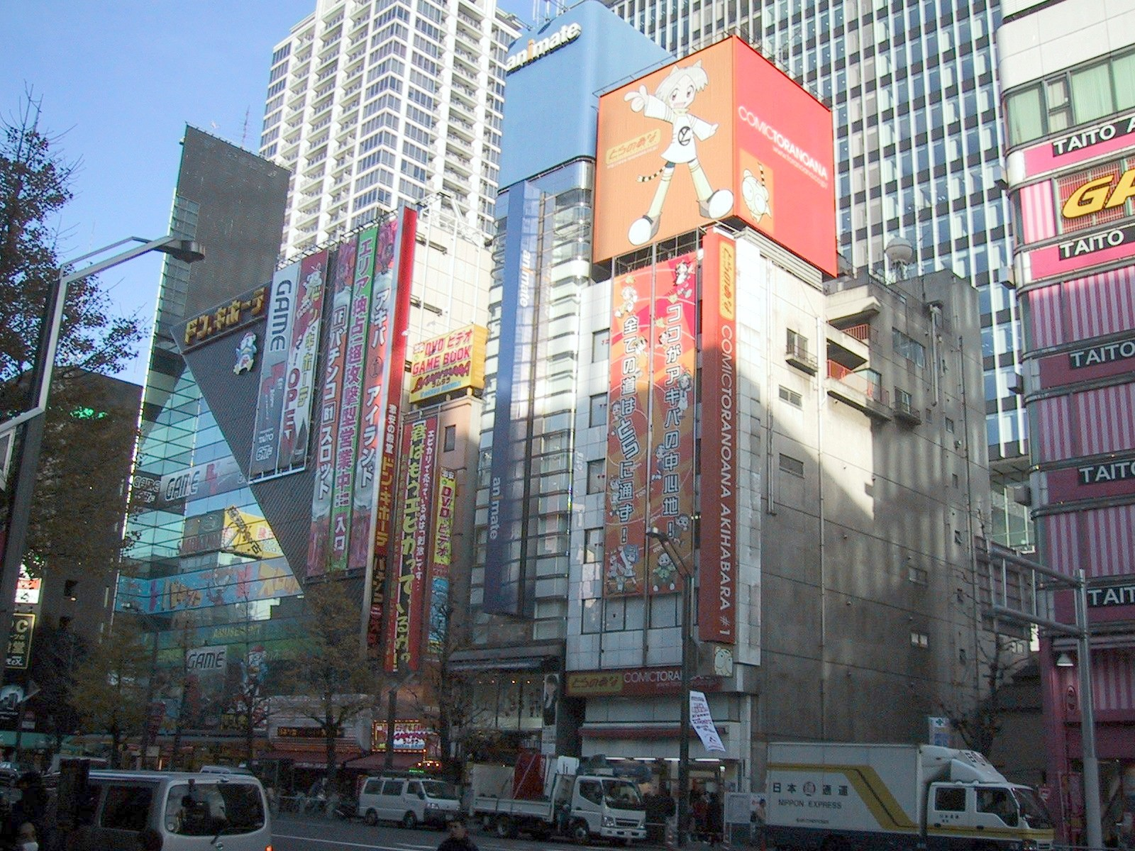 Comic Toranoana is one of the larger Manga retailers, with three major stores in Akihabara alone. The "tiger Girl" on top of the building is its mascot.